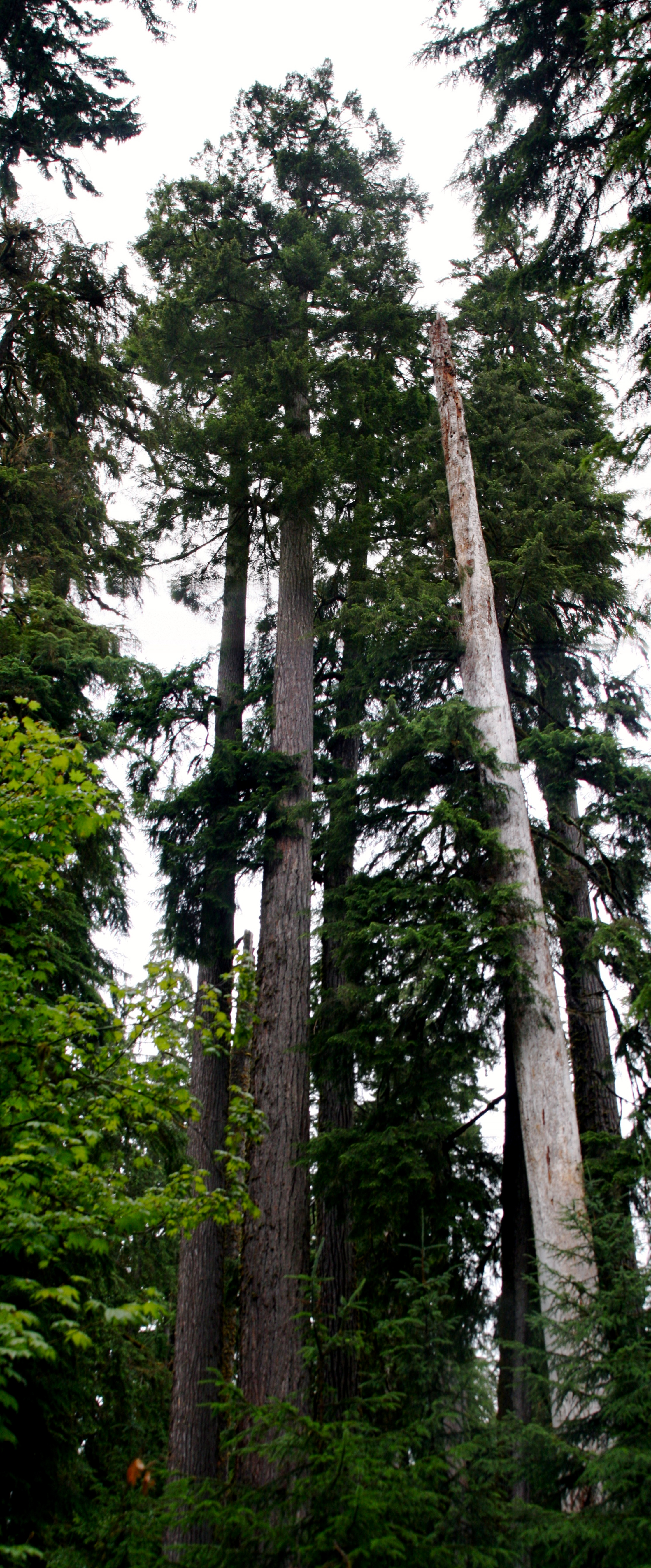 A mature, old-growth Coast Douglas-fir. Spruce Trail, Hoh Rain Forest. Washington State.